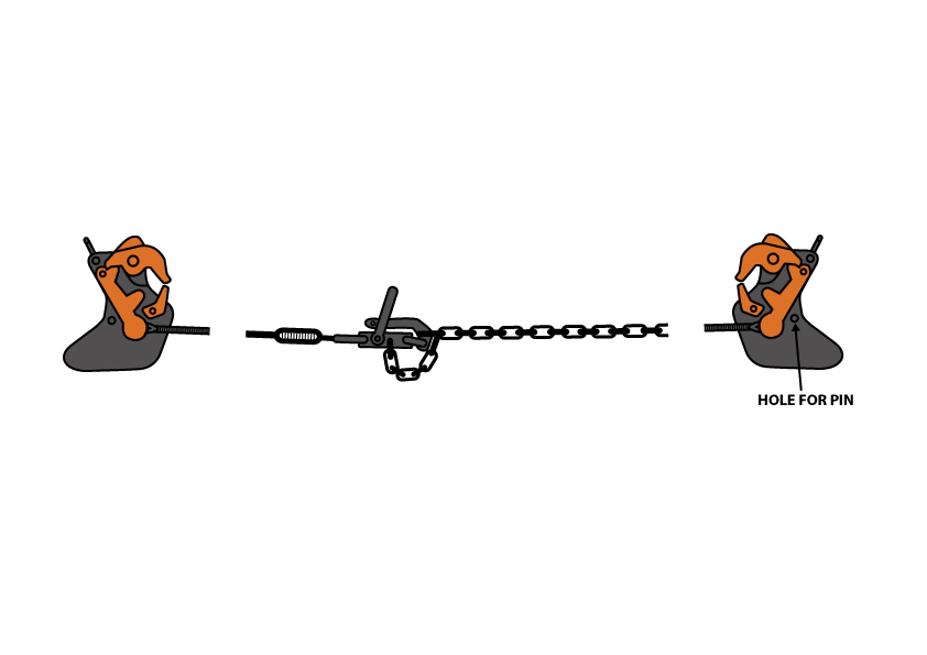 The boat skipper gives the order "Out Pins". The crew pushes down on the Fore and After to take the weight off the Pins, and then the crew removes the Pins. The Disengaging Gear is then ready to launch the boat.